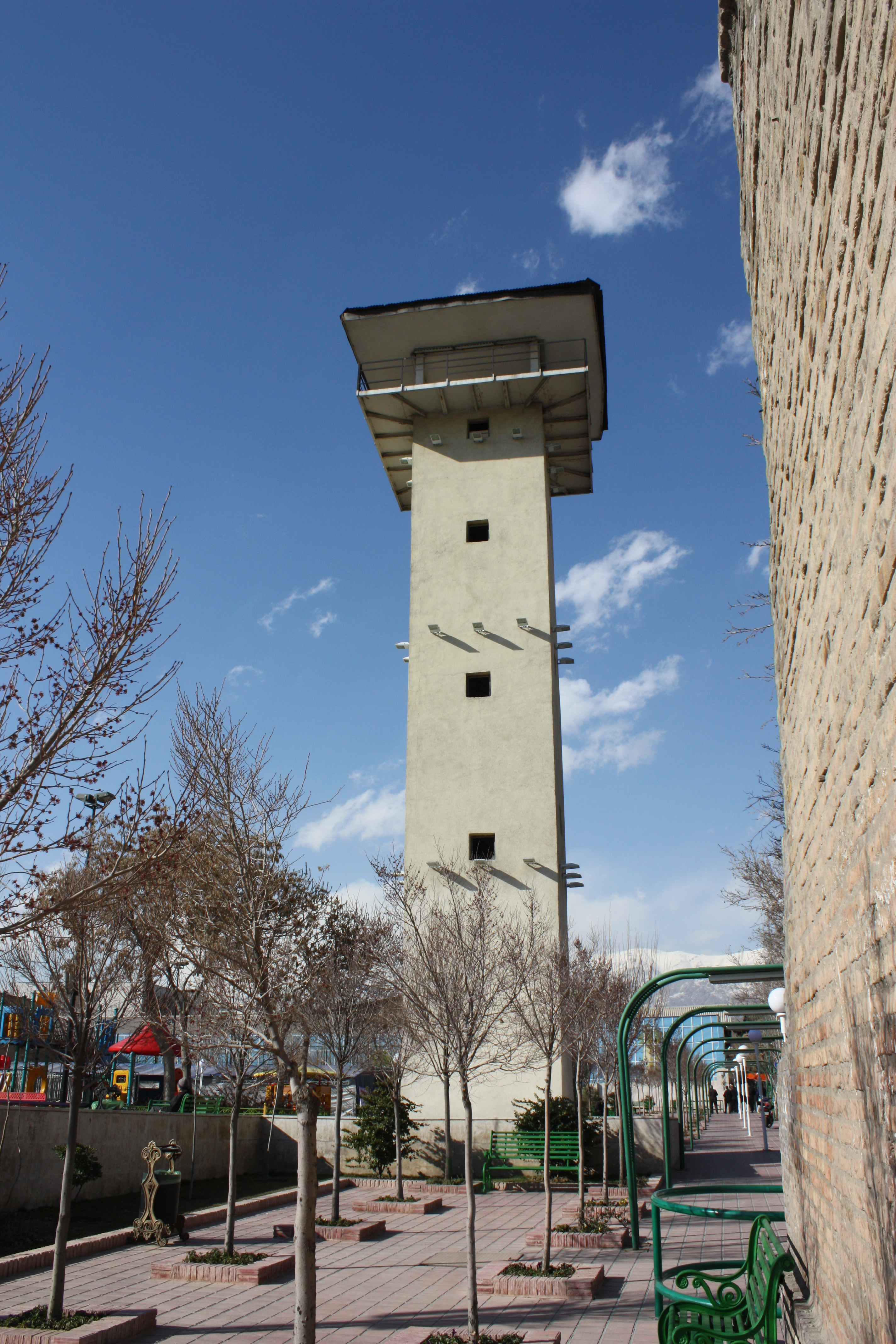 Qasr Prison